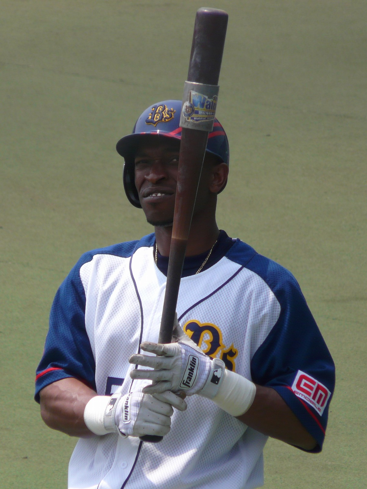 OB-Freddie-Bynum20100421